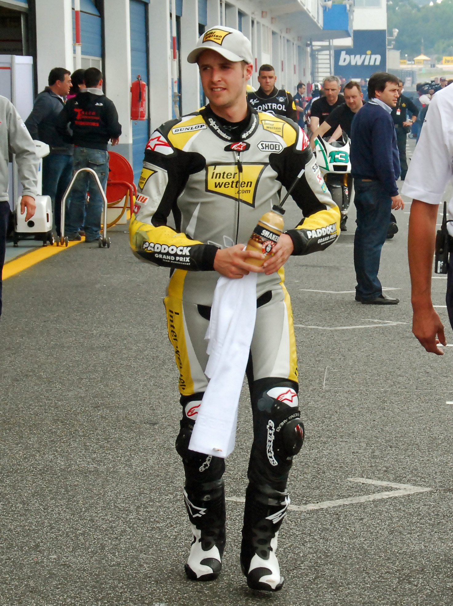 Thomas Luthi 2011 Estoril This is cropped version. Original size is here.